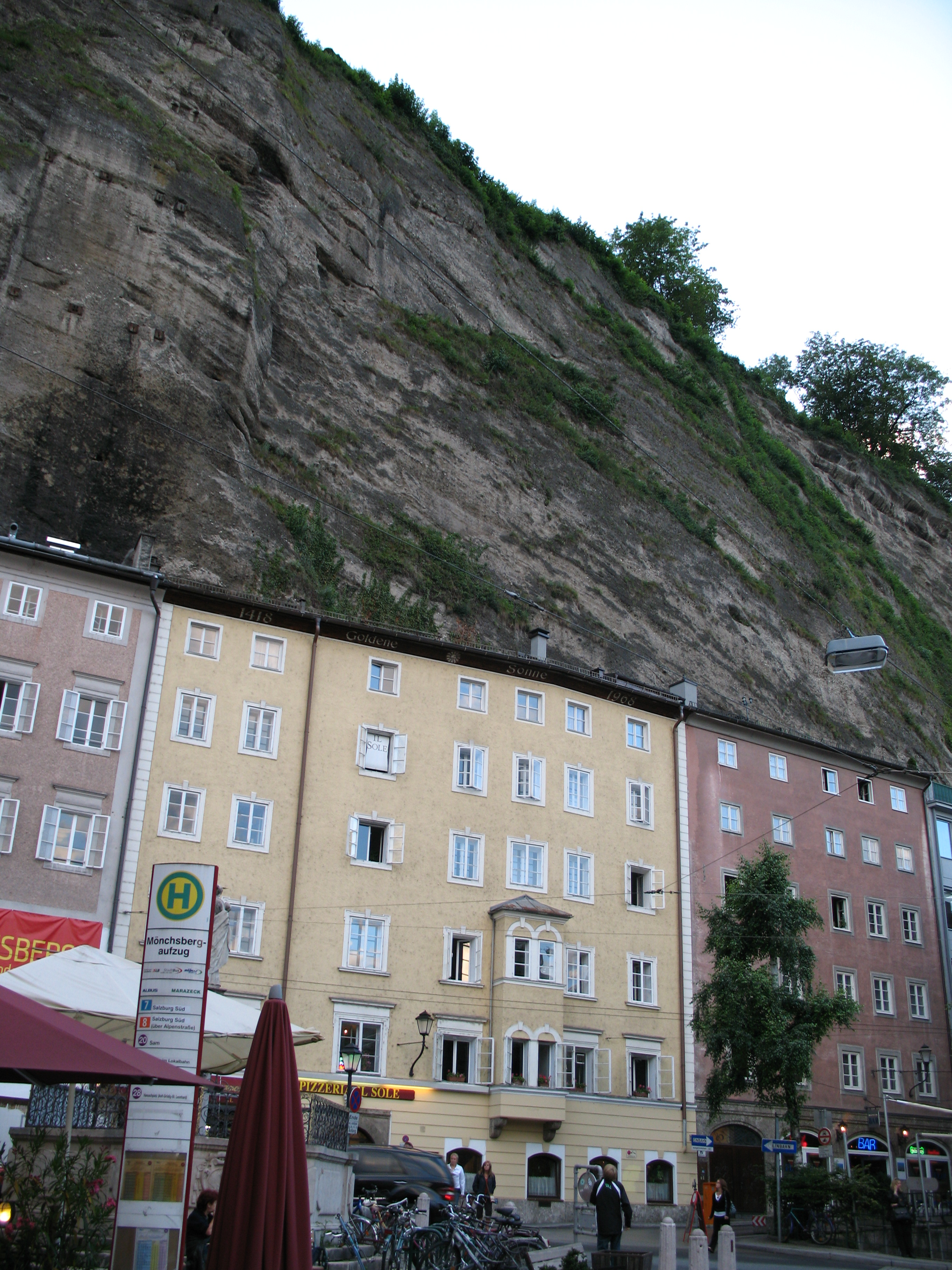 Monk Hill, Salzburg, Austria